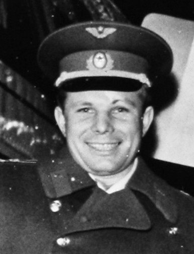 Yuri Gagarin boarding a SAS Scandinavian Airlines Convair 440 for a flight to Göteborg